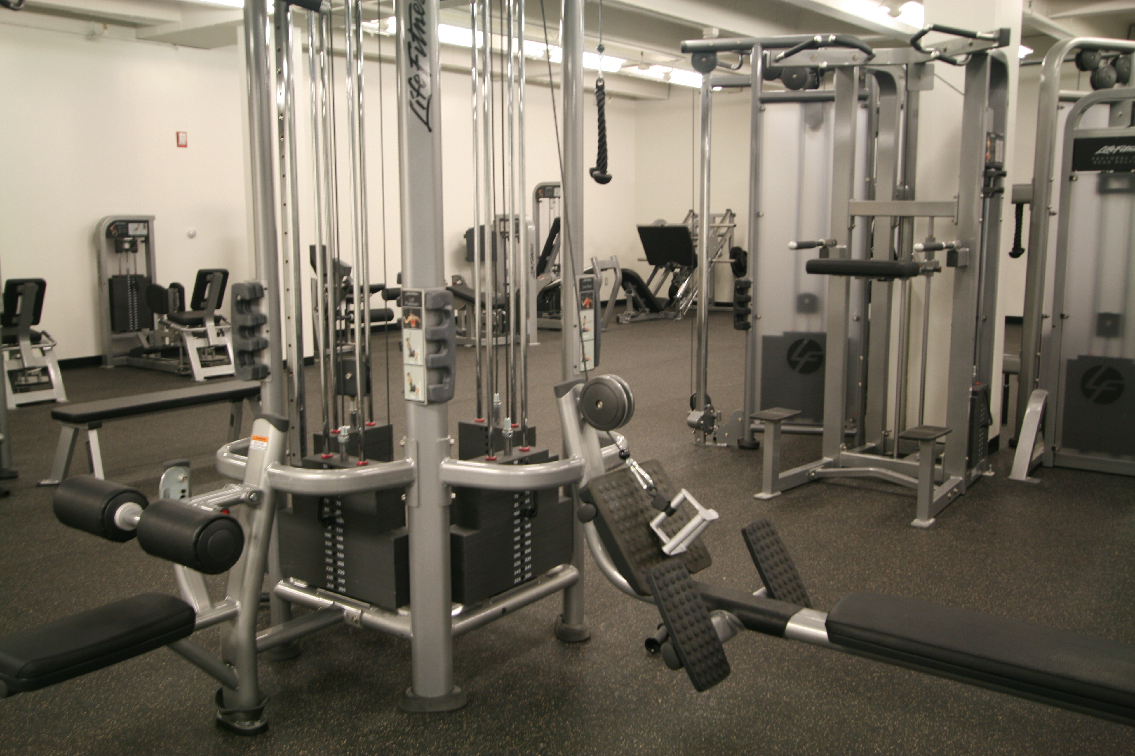 Multifunctional cable and row machines in a gym